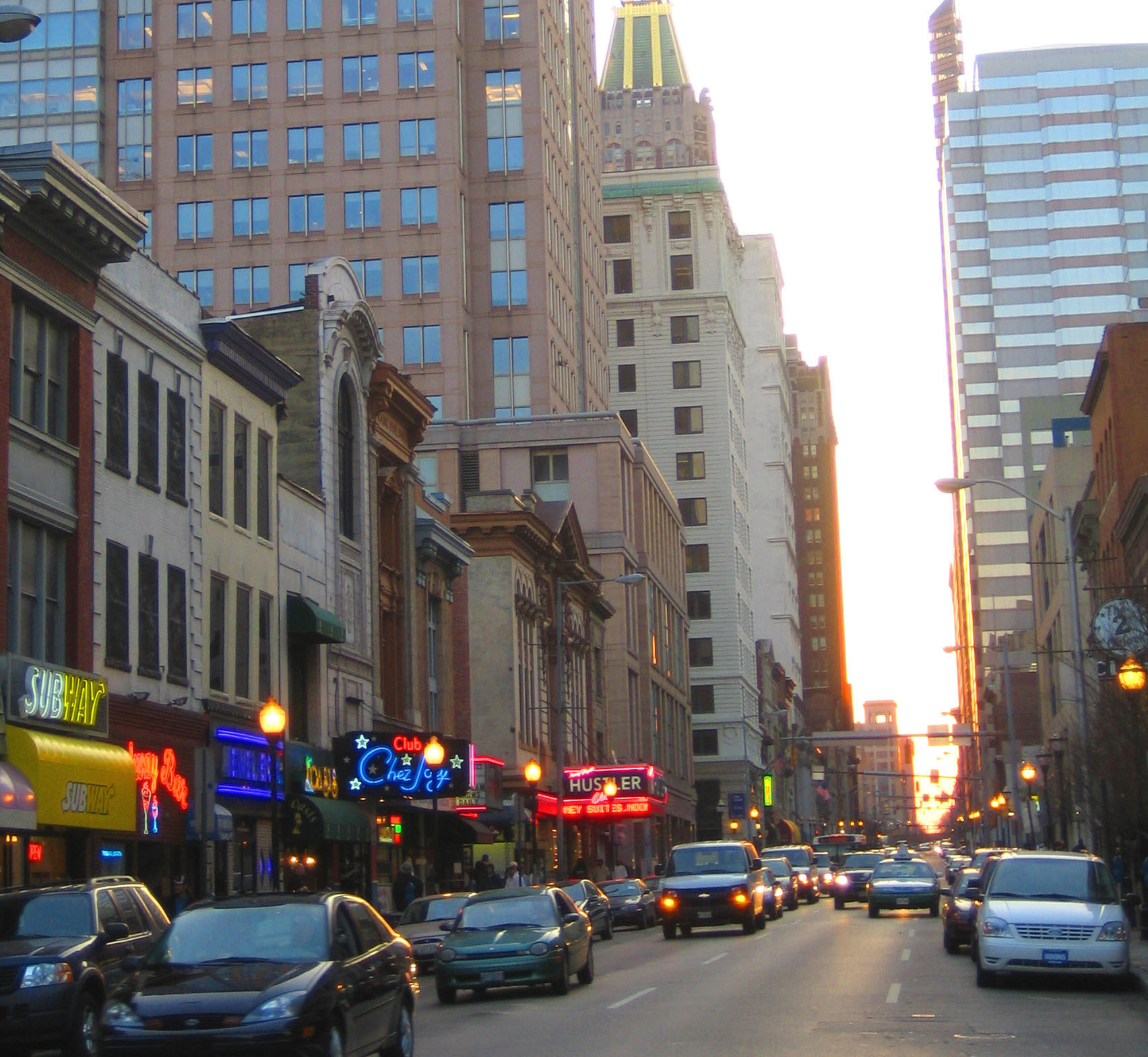 The Block in Baltimore, Maryland, USA Original text: A view of The Block looking West on Baltimore St.